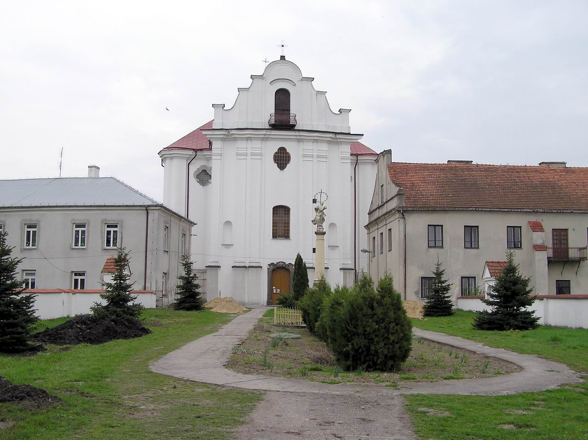 Our Lady of Assumption Church in village Opactwo (Kozienice county)